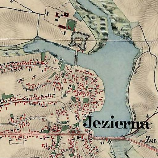 Jezierna_am Ufer der Wossuschka,_Josephinische_Landesaufnahme,_um_1869